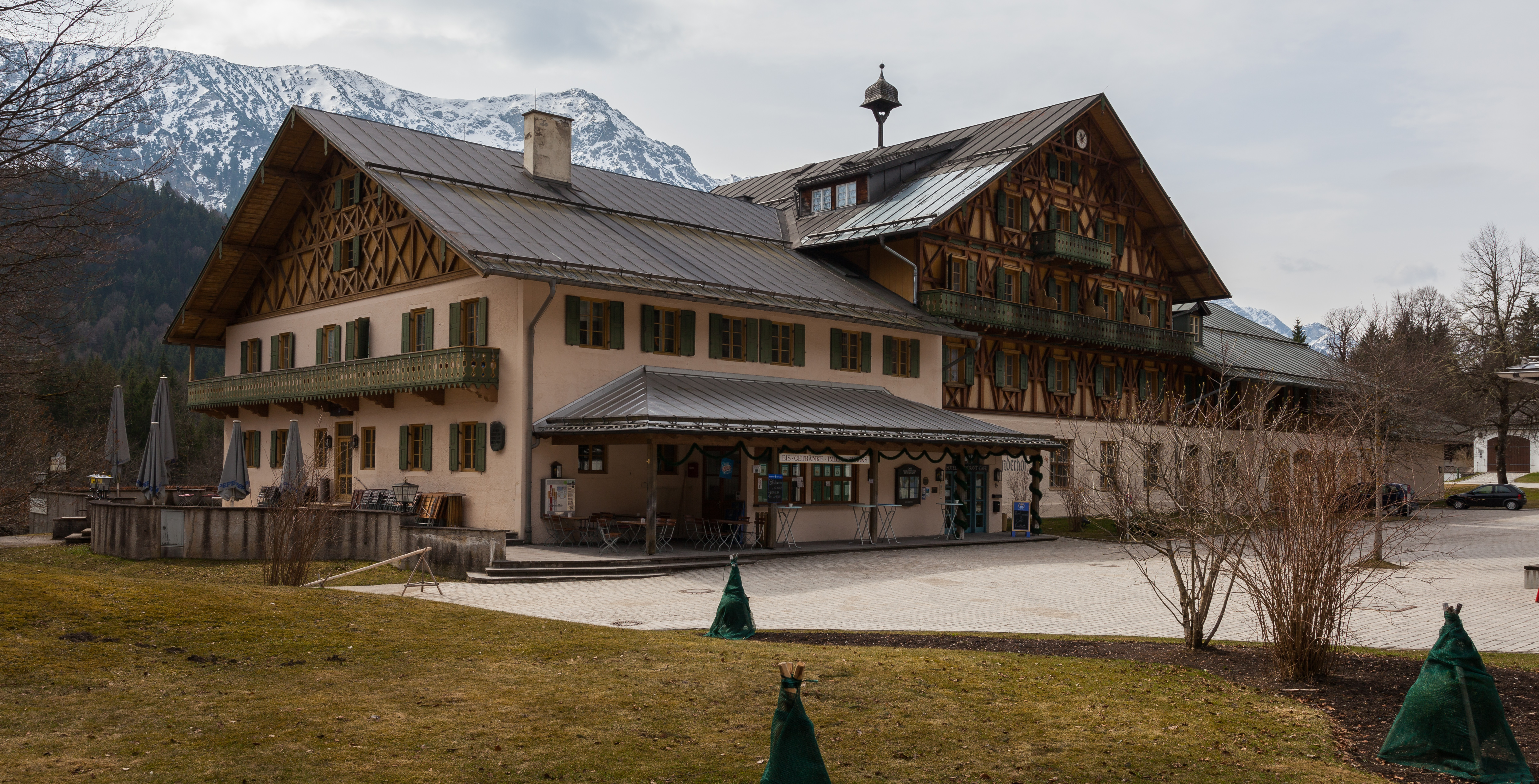 Hotel of the Linderhof Palace, Bavaria, Germany